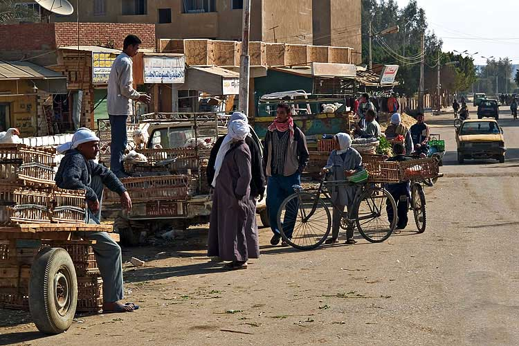 workaday life in Bawiti, Bahariya oasis own photo feb 10, 2005 photo: nomo/michael hoefner